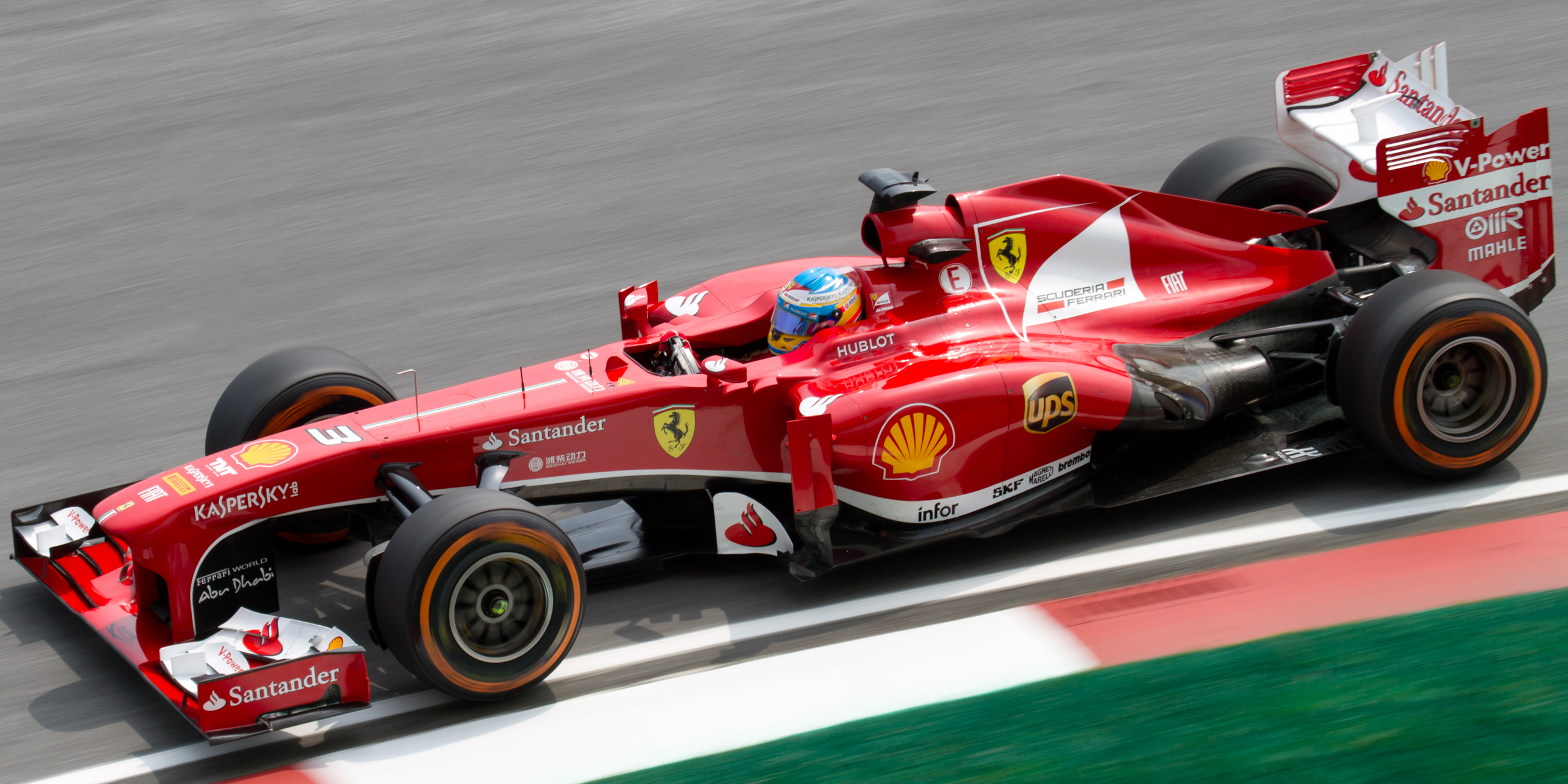 Formula One 2013 Rd.2 Malaysian GP: Fernando Alonso (Scuderia Ferrari) during the first practice session on Friday.